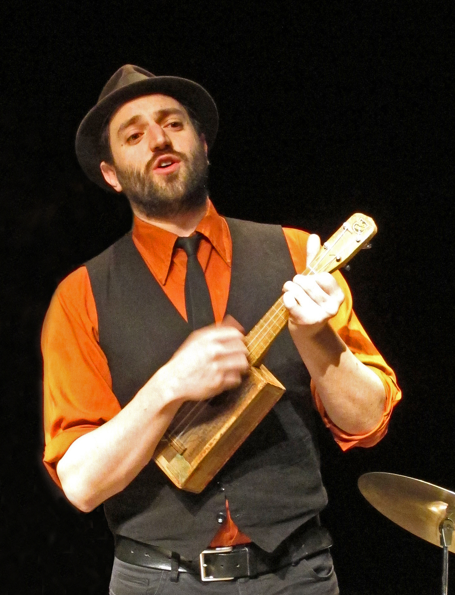 Daniel Kahn during a concert with his group in Luxembourg